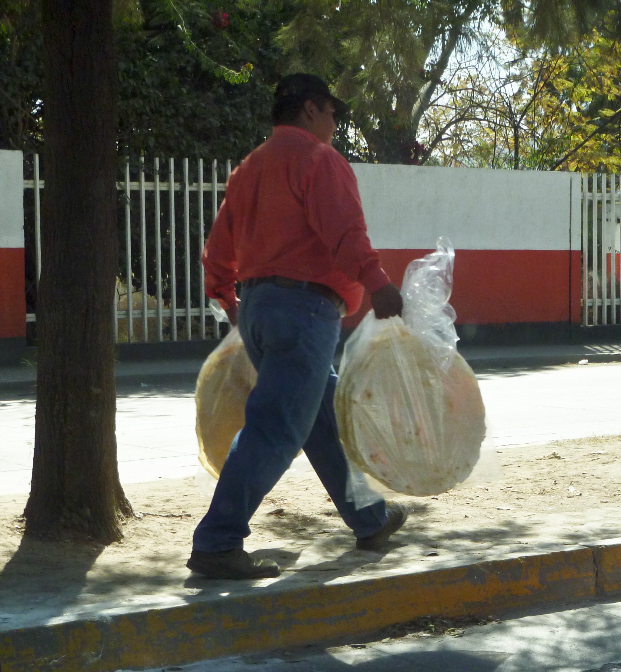 Tortillas made especially for Tlayudas being sold by a street vendor in Oaxaca, Mexico.